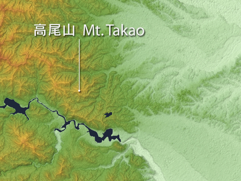 Mount Takao in Tokyo, Honshu, Japan.